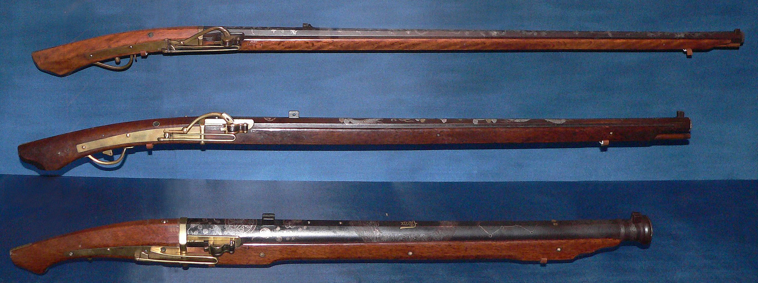 teppō (Japanese-built arquebuse) of the Edo era (early 17th century). Above center is a Japanese 'powder horn' with the emblem of Tokugawa clan.